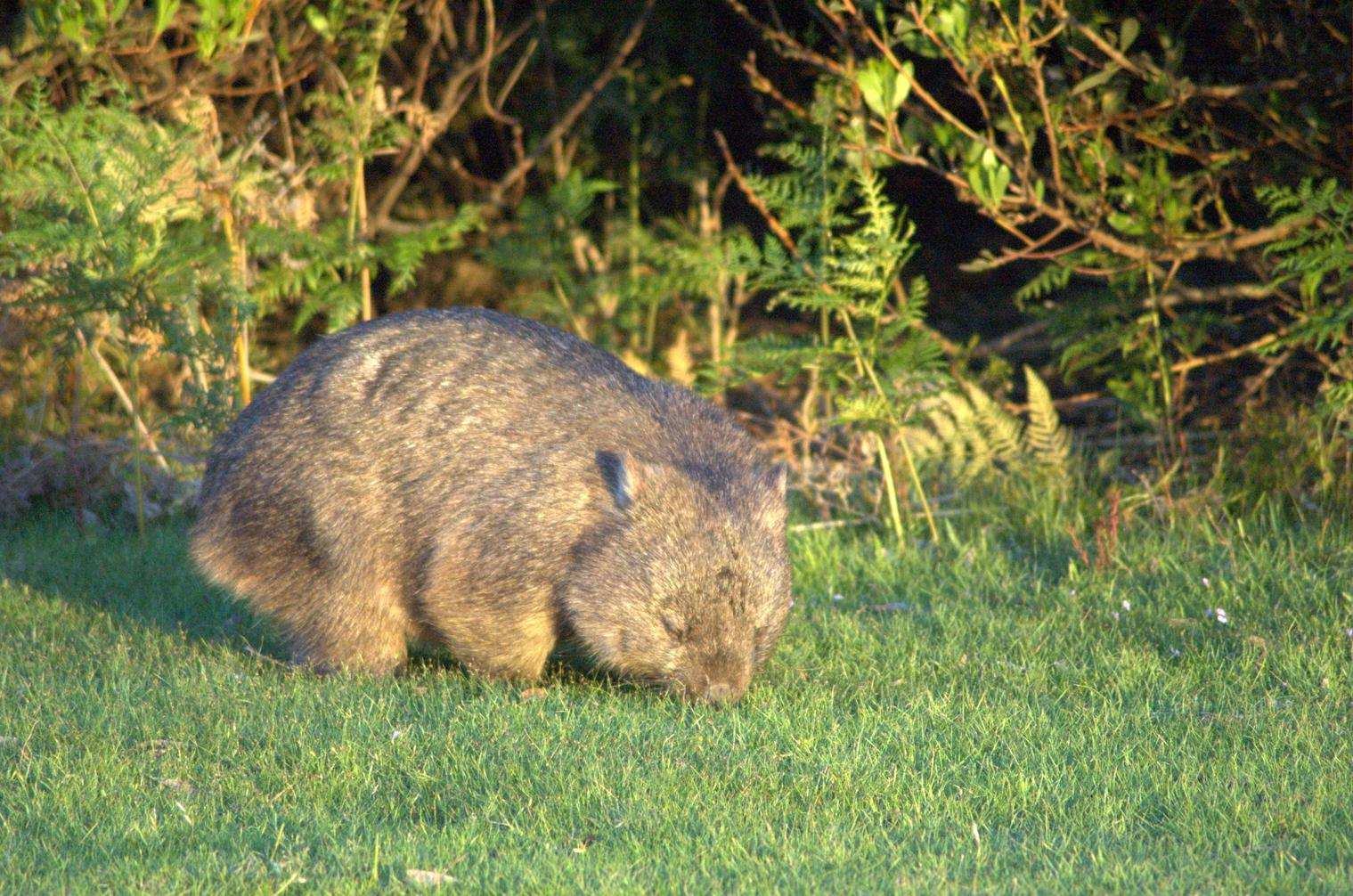 A wombat "helping maintain the grass" in Narawntapu National Park, Tasmania. December 2005.